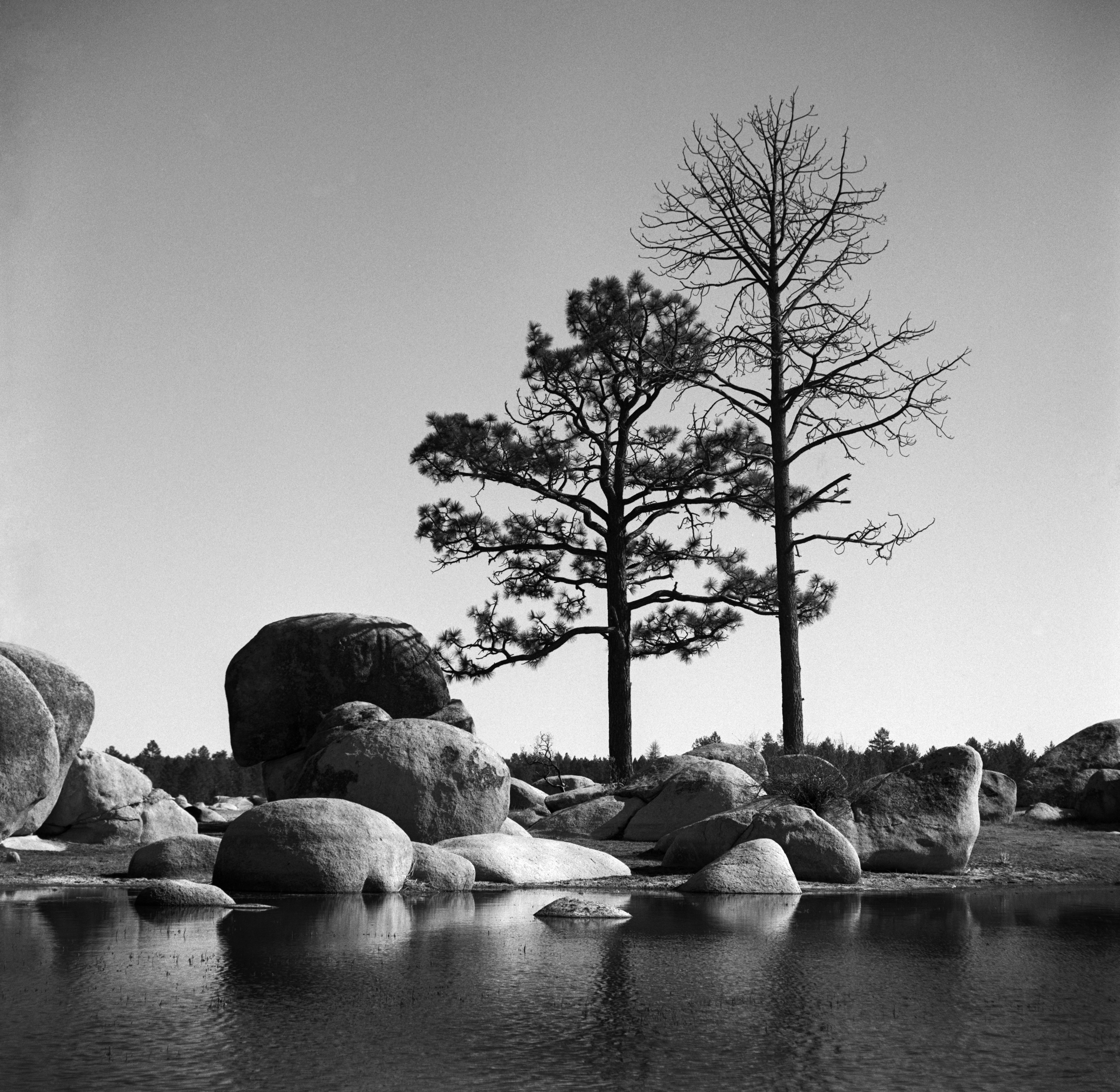 Black and white photograph of Hanson's Lagoon (Laguna Hanson) — located in the Sierra de Juárez, within Constitution 1857 National Park, México. Located near/east of Ensenada (city) in the Municipality of Ensenada, Baja California state. The Sierra de Juárez is a mountain range of the Peninsular Ranges System, on the northern Baja California Peninsula.